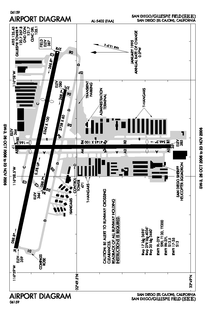 FAA airport diagram for SEE (Gillespie Airport) in California, United States.